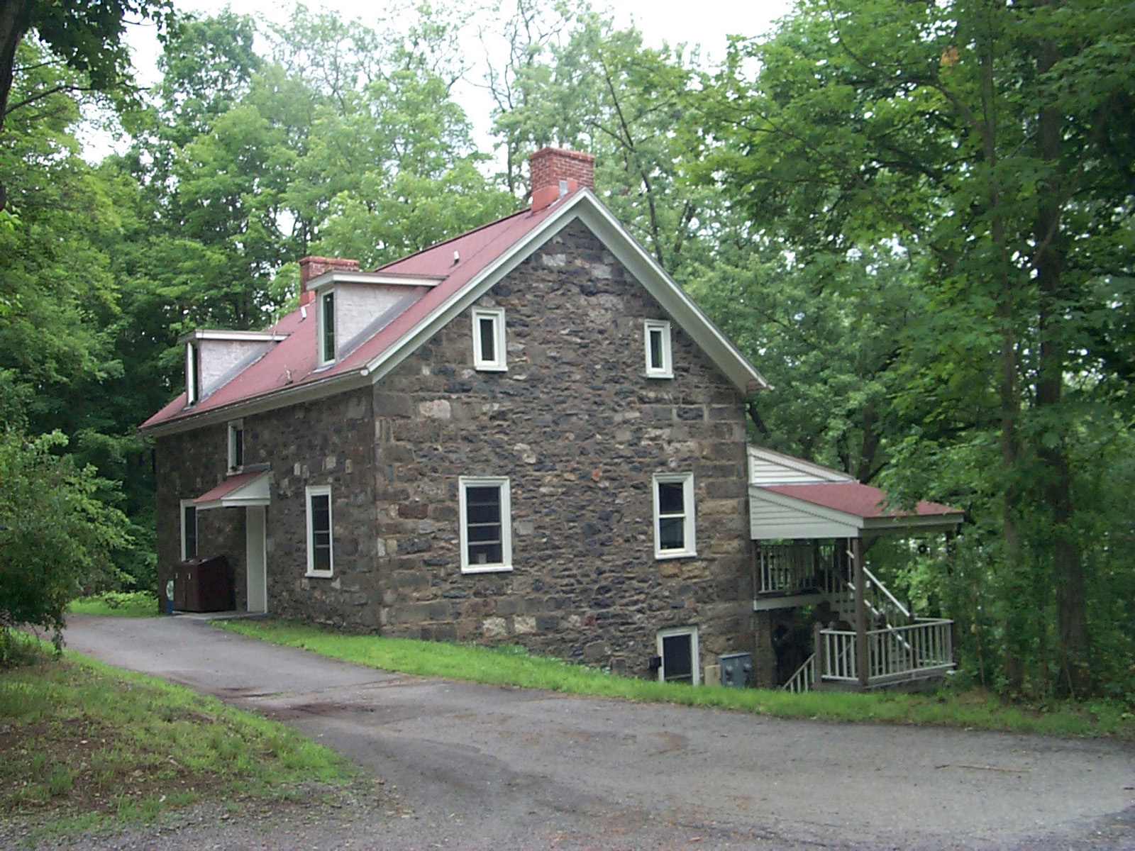 Captain Jacob Shoemaker House in Delaware Water Gap National Recreation Area, Pennsylvania, USA